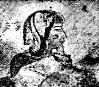 Portrait of a libyc people painted in the tomb of Seti I, photographied by Sir Flinders Petrie with his famous «biscuit-box camera»